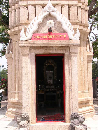 Ho Haem Montien Devaraj or King Prasart-Thong shrine within Bang Pa-In Palace Ayutthaya, Thailand